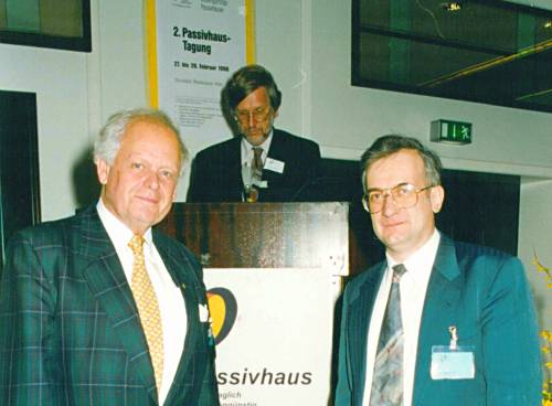 Проф. Бо Адамсон (ліворуч), Роберт Хастінгс (у центрі) і проф. Вольфганг Фпйст (праворуч) на 2-ій Міжнародній конференціяії Пасивного Будинку в Дюссельдорфі.